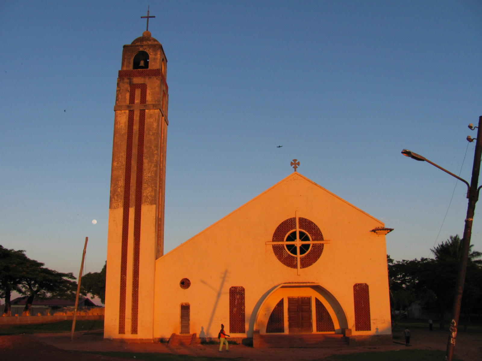 Foto Frontal da Igreja do Sacalumbo Nossa Senhora das Vitórias do Luena.